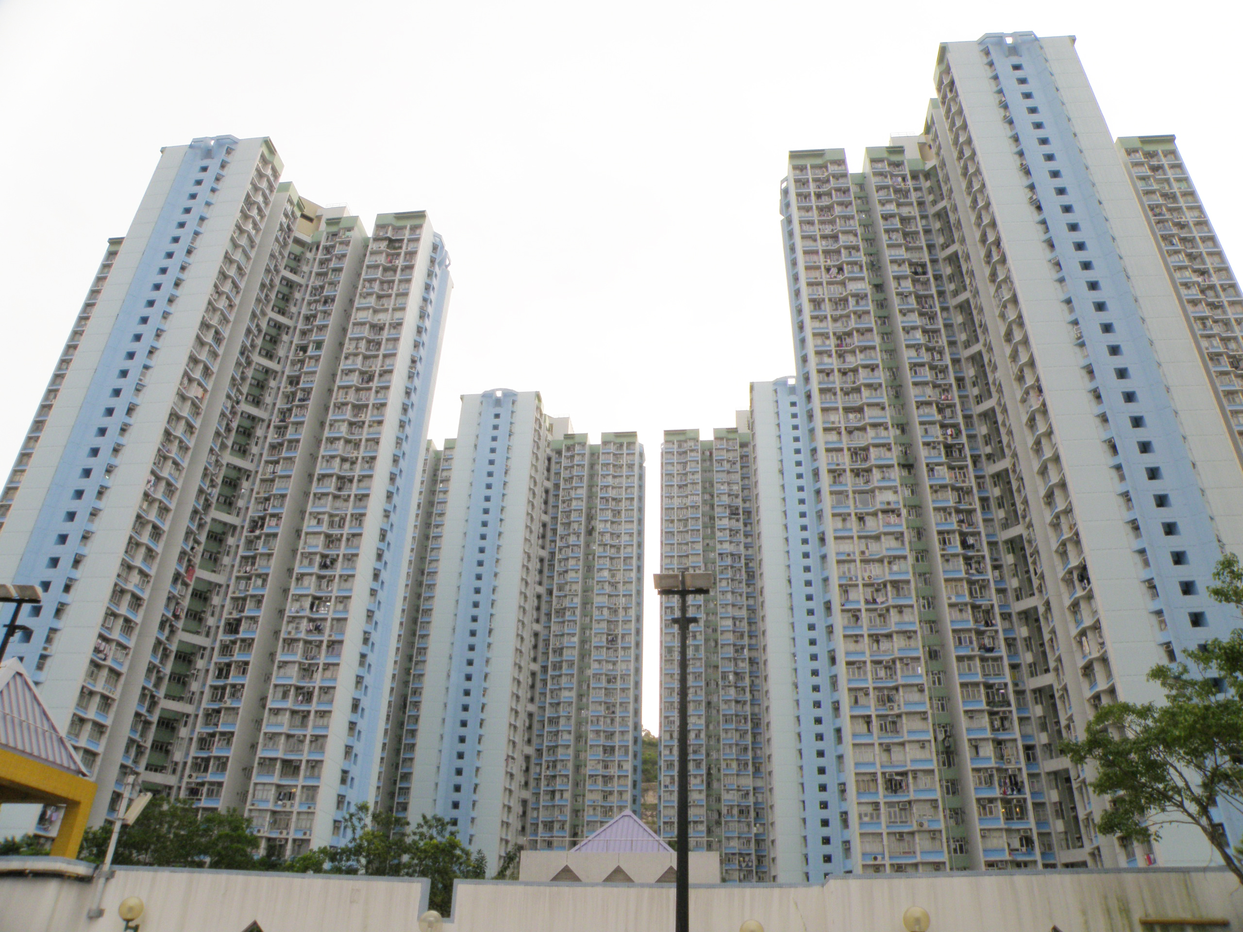 Tung Hei Court in Sai Wan Ho, Hong Kong.